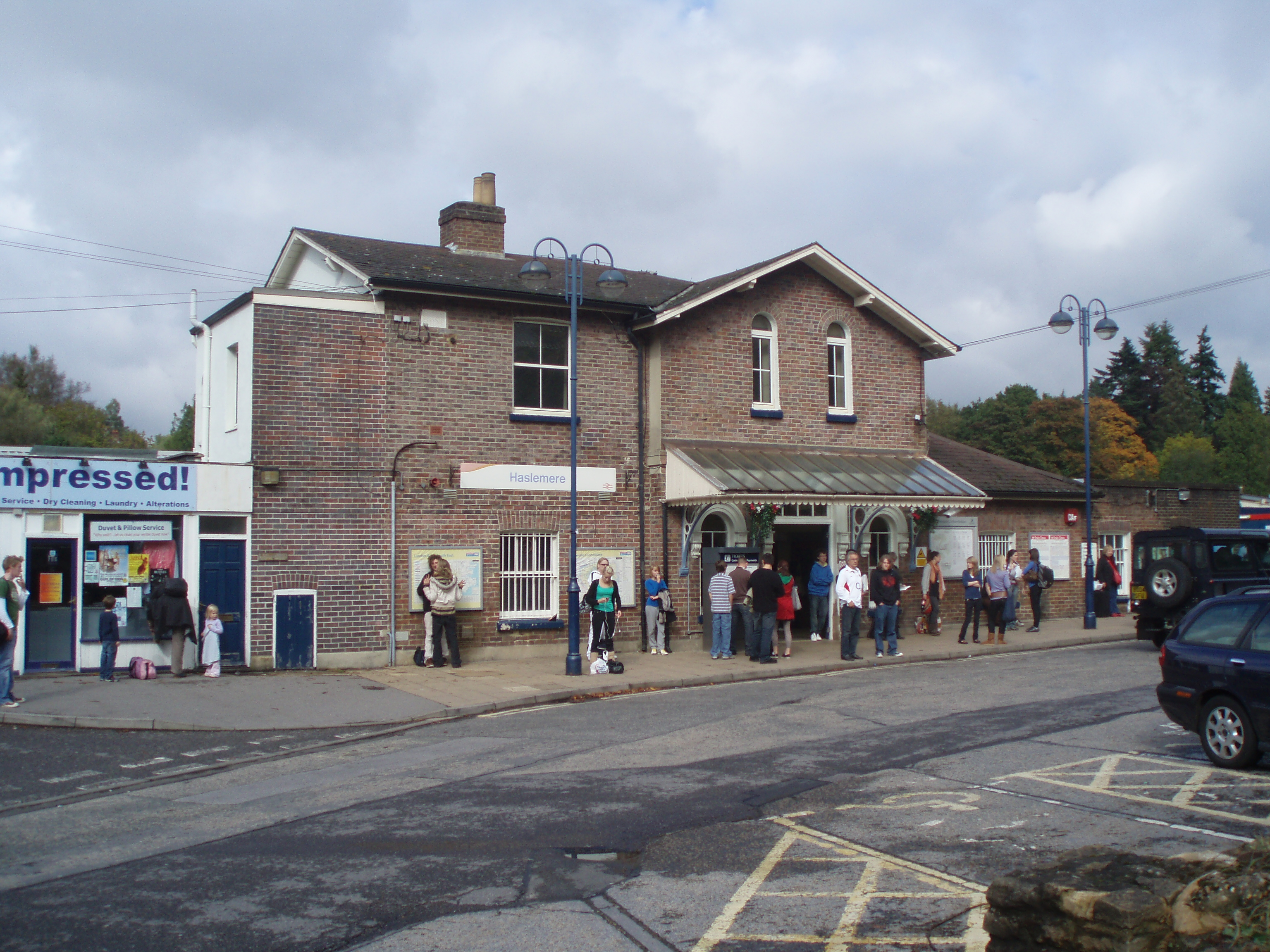 Photo taken by 29th Sept 2007